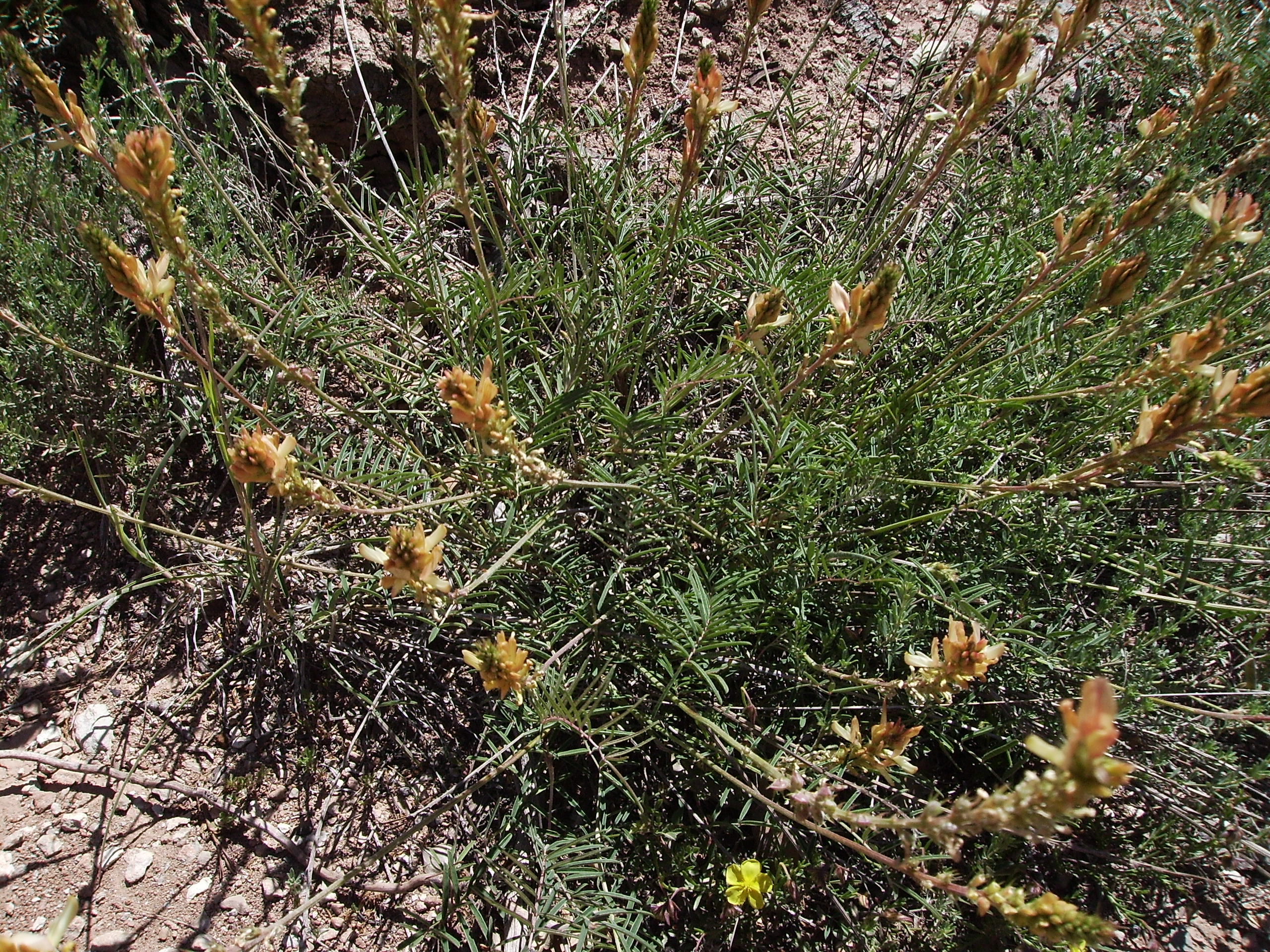 A Wild sainfoin Onobrychis saxatilis, Castelltallat, Catalonia